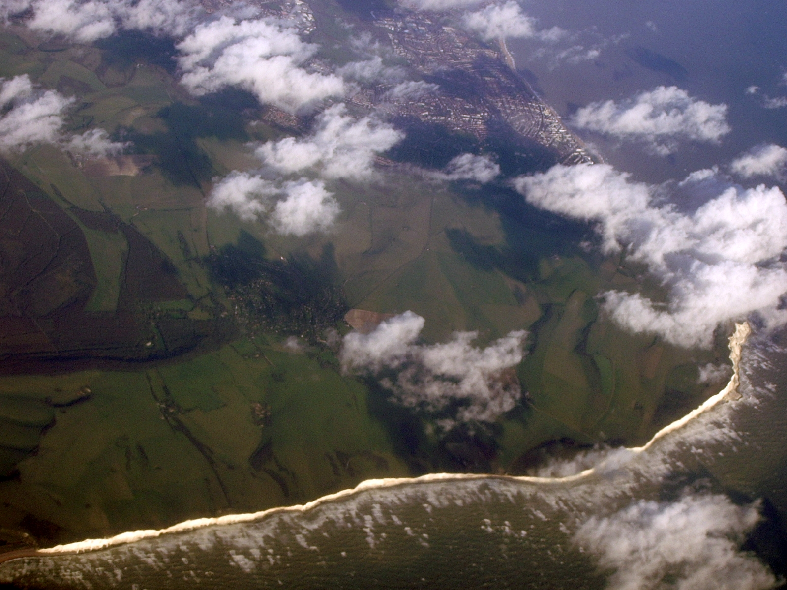 Flight London (LHR) to Paris (CDG)